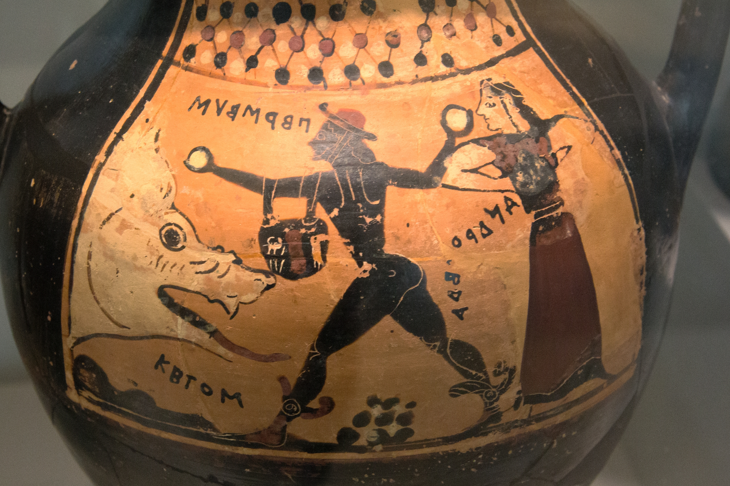 Corinthian black-figure amphora from Cerveteri (Italy), 575-550 BC. Andromeda Helps Perseus Kill Cetus. Antikensammlung Berlin, Altes Museum, F 1652. According to Roscher's Lexicon of Greek Mythology, Perseus here holds stones in each hand to throw at the sea monster Cetus. There is a pile of more stones at the ready on the ground between his legs.